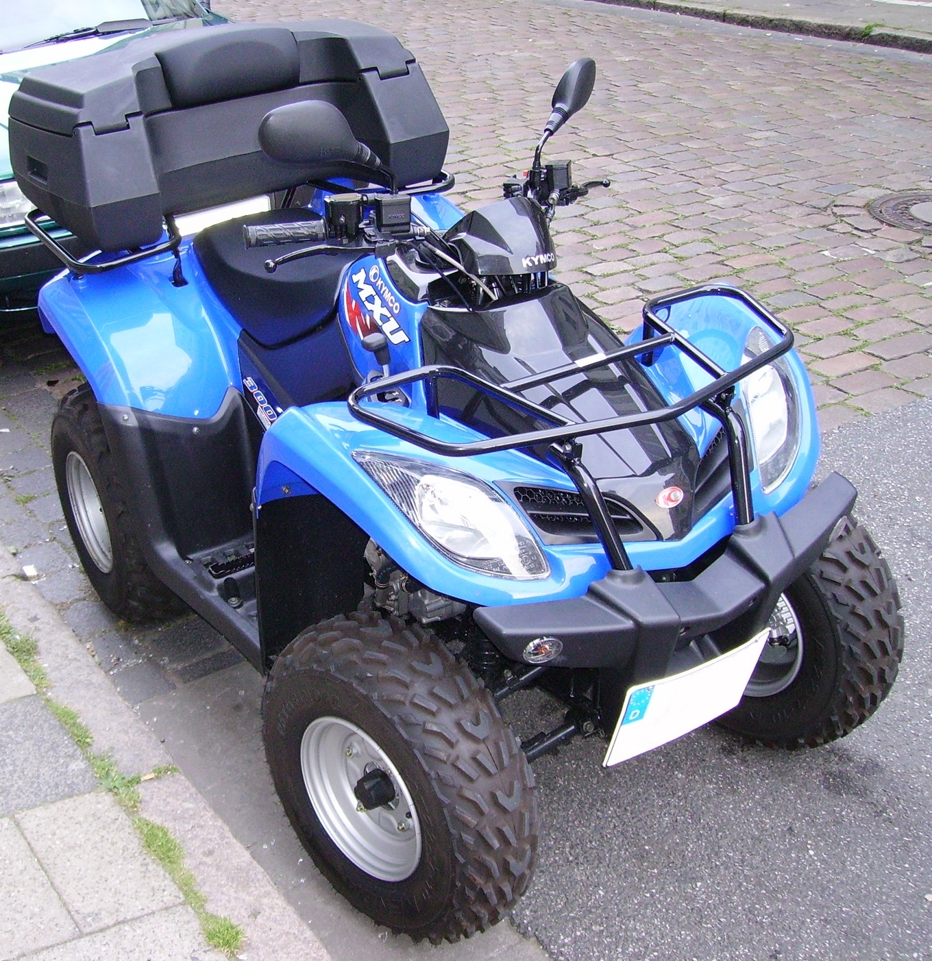 A Kymco MXU 300 ATV